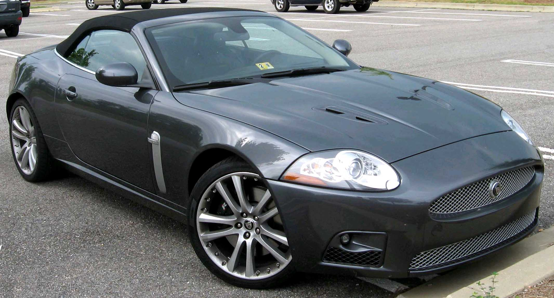 2007 Jaguar XKR photographed in USA.